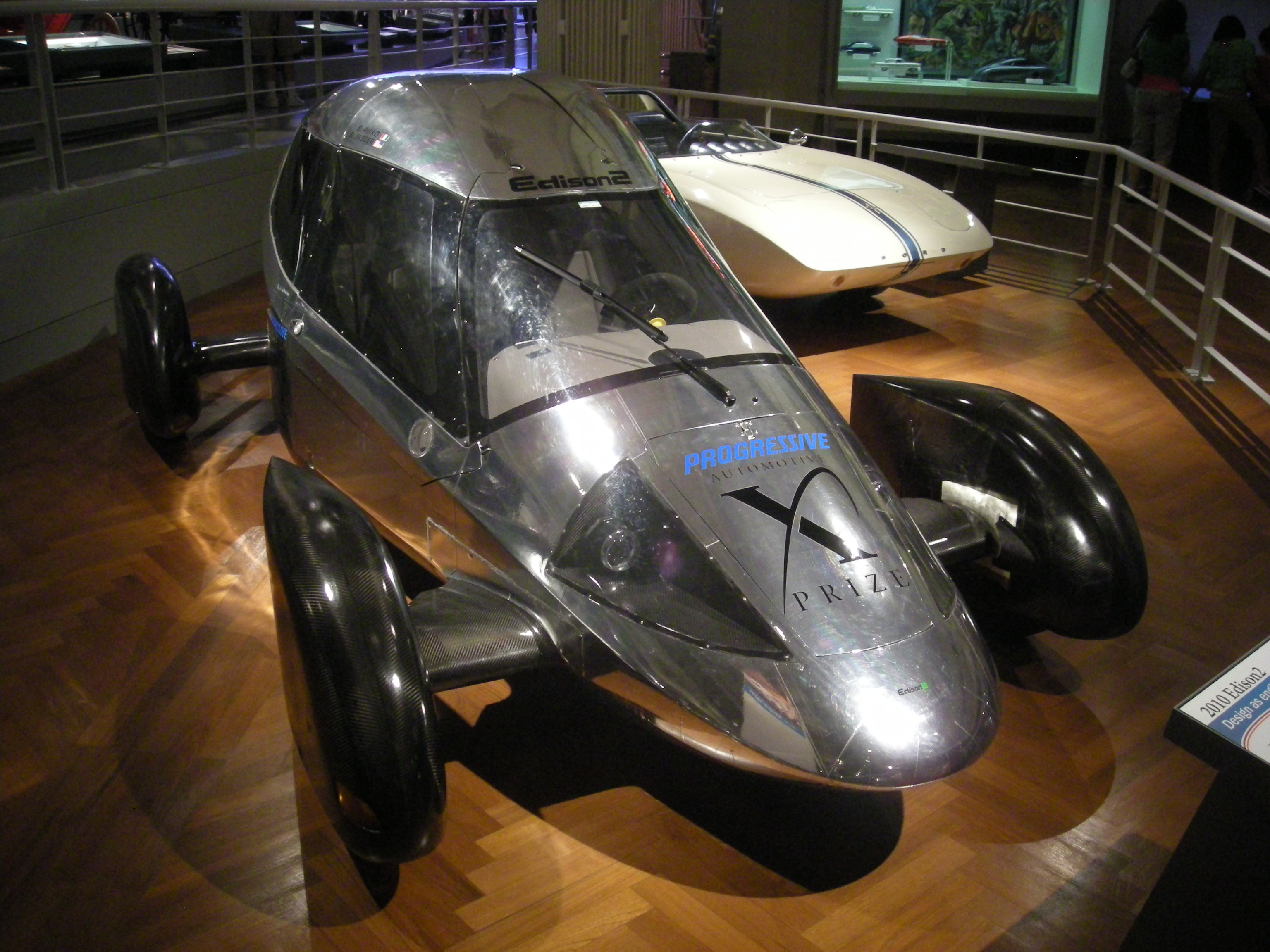 The 2010 Edison2 on display at the Henry Ford Museum in Dearborn, Michigan (United States).